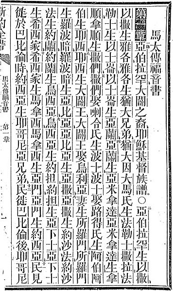 Samuel Dyer Gospel